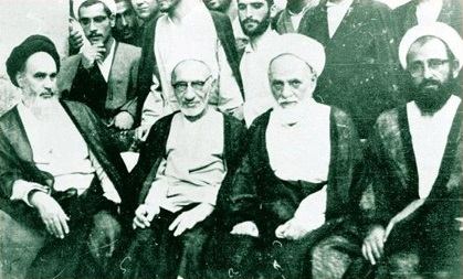 صورة للشيخ الطهراني (أقصى اليمين) مع عدد من العلماء والإمام الخميني.